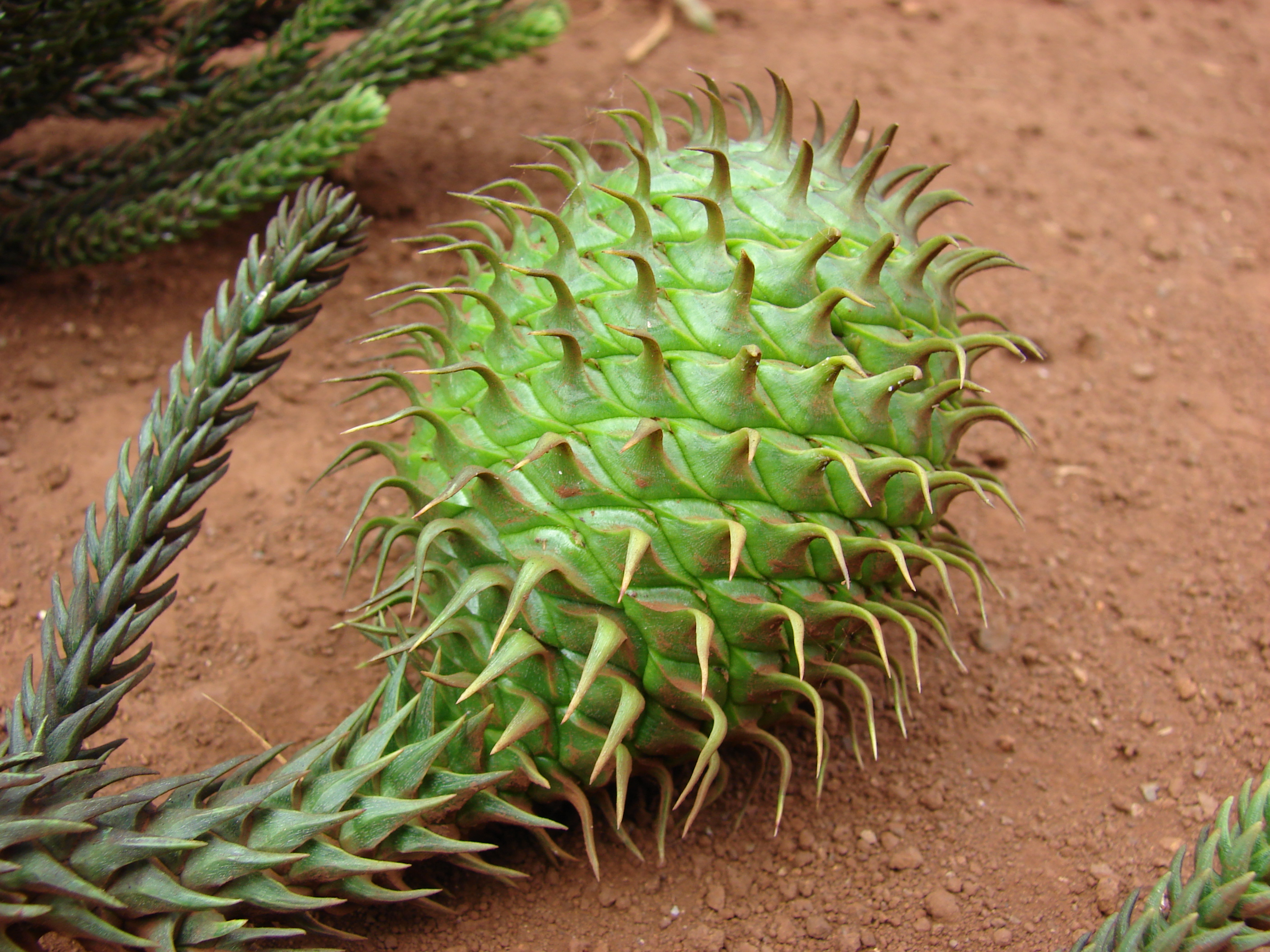 Araucaria cunninghamii (fruit). Location: Lanai, Kanepuu